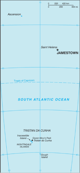 Map of Saint Helena, Ascension, and Tristan da Cunha from the 2010 World Factbook (2010-11-11 revision)